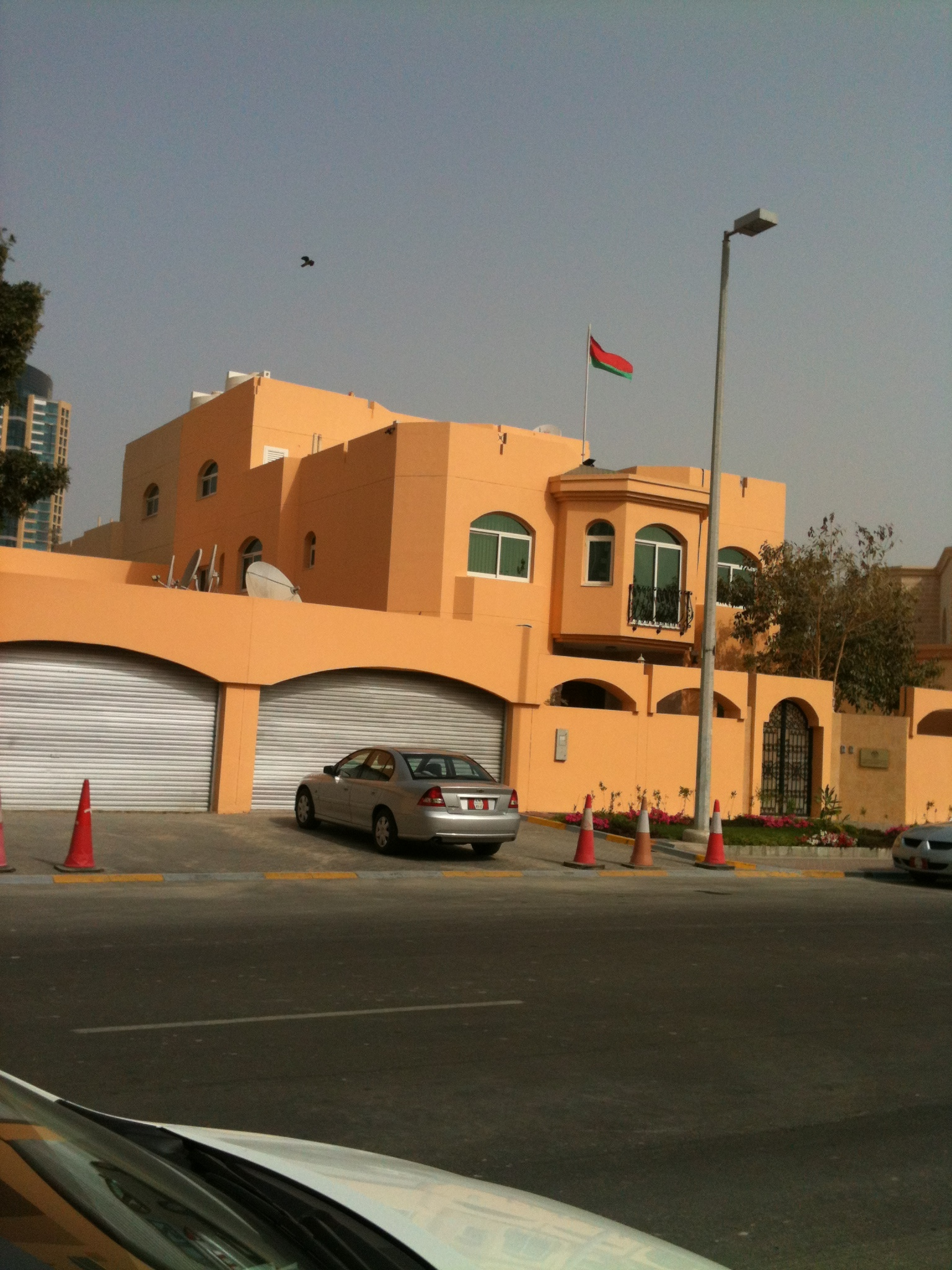 Embassy of Belarus